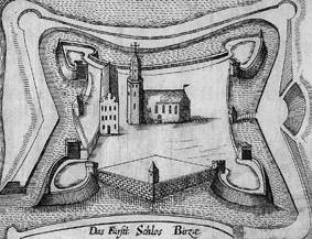 Main part of Biržai Castle in Lithuania. Engraving